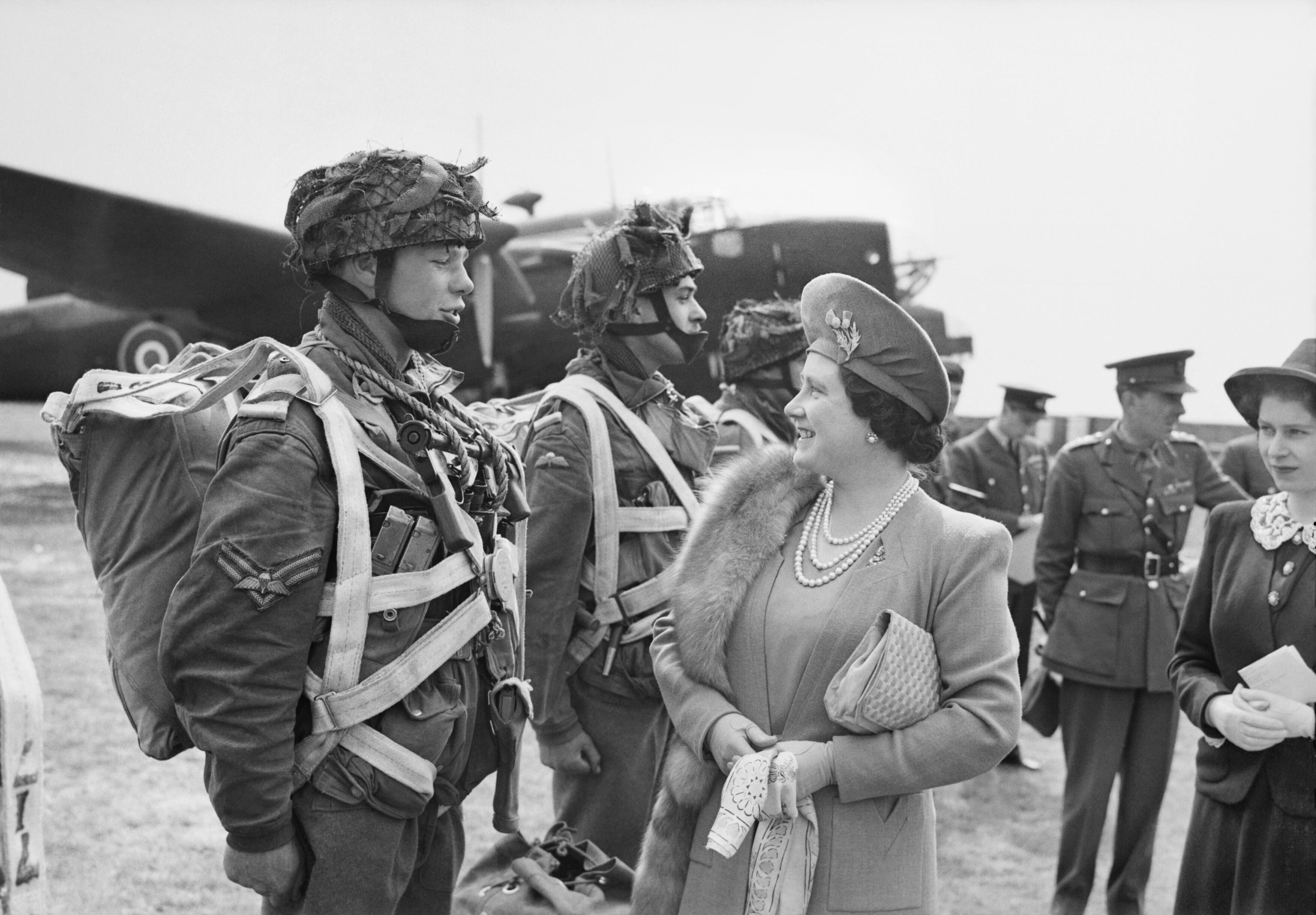 The Queen and Princess Elizabeth talk to paratroopers in front of a Halifax aircraft during a tour of airborne forces preparing for D-Day, 19 May 1944. The Queen and Princess Elizabeth talk to paratroopers in front of a Halifax aircraft during a tour of Airborne forces, 19 May 1944.